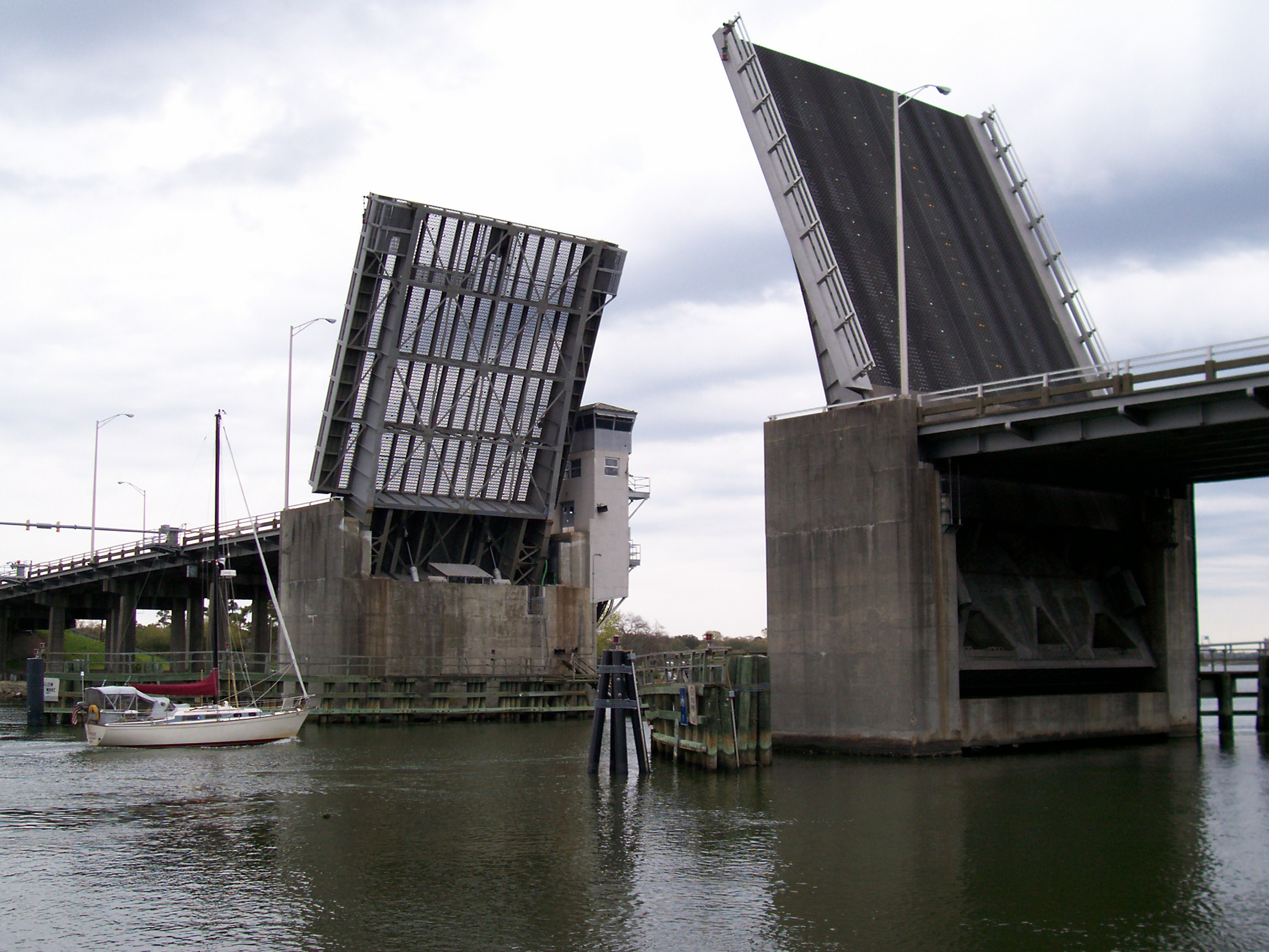 The Wappoo Creek Bridge is a bascule-type drawbridge in James Island, South Carolina (in the greater Charleston area), built in 1926. Photo taken from the Charleston Crab House.